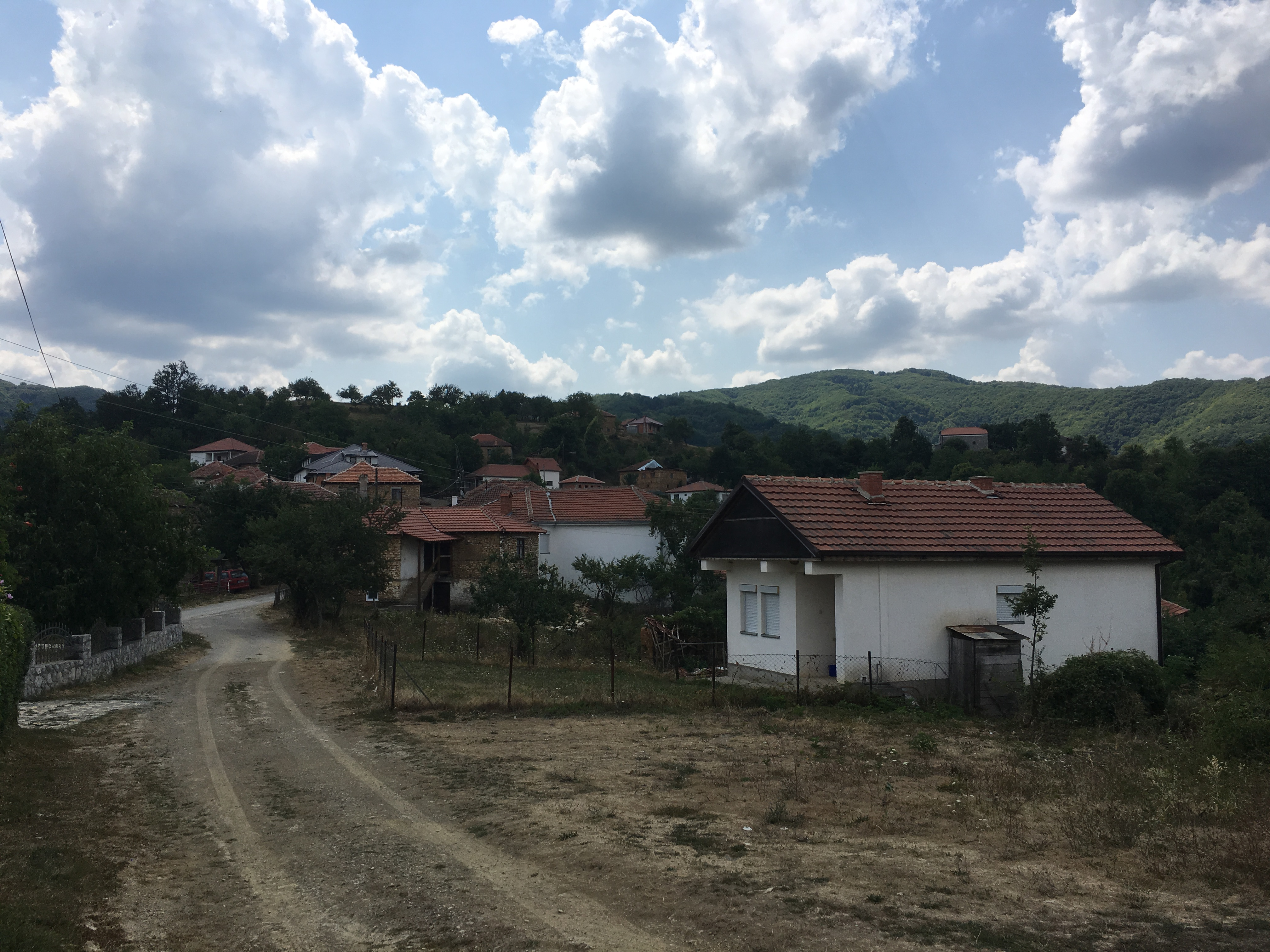 Houses in the village of Zavoj